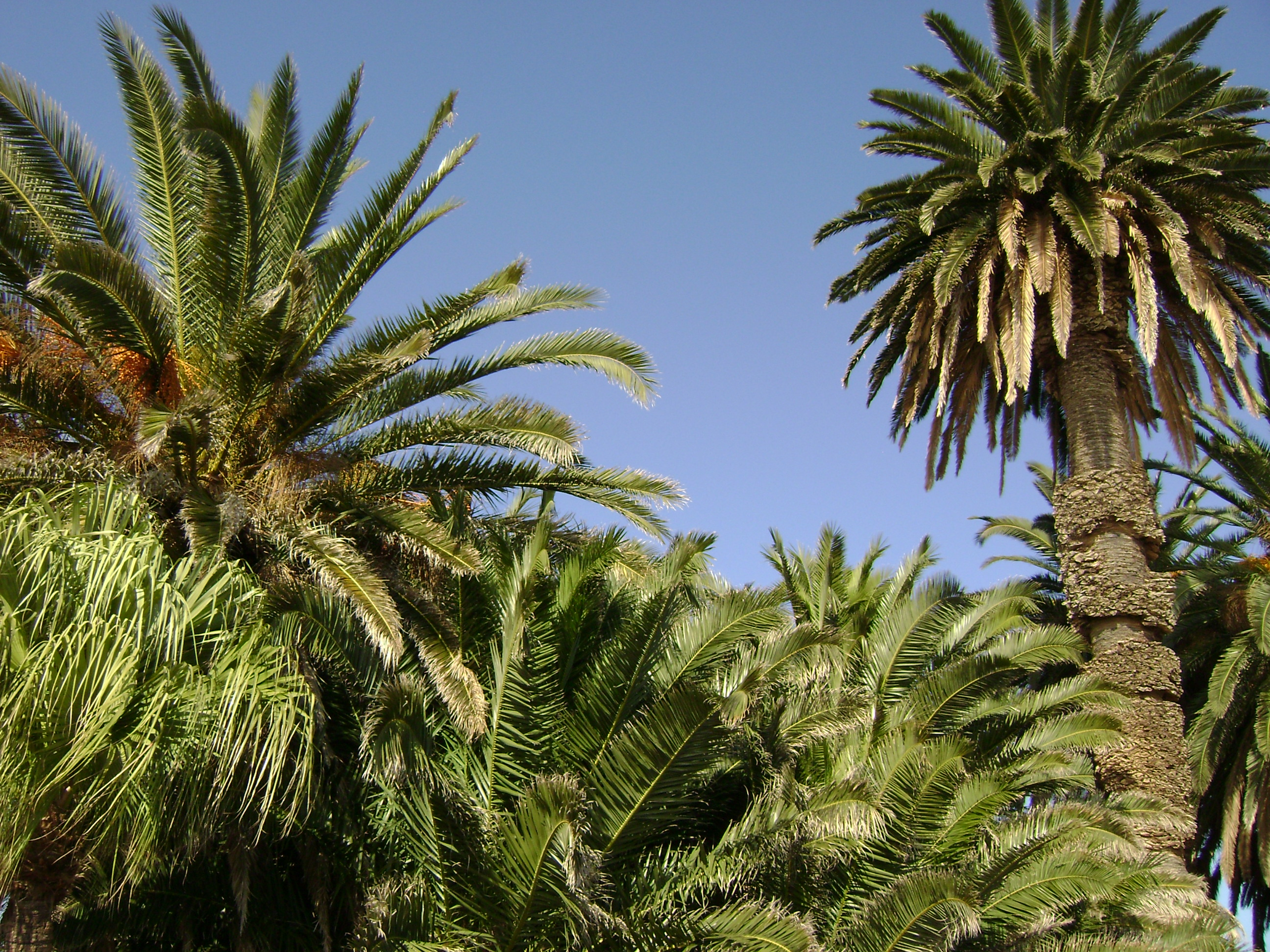 Kalamiaris phoenix canariensis palm forest, Panayoudha, Lesvos.